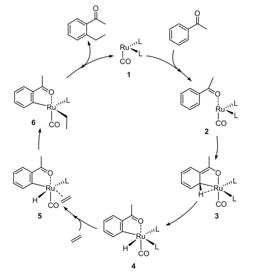 Proposed mechanism for the reaction between ethylene and acetophenone, L=PR3.